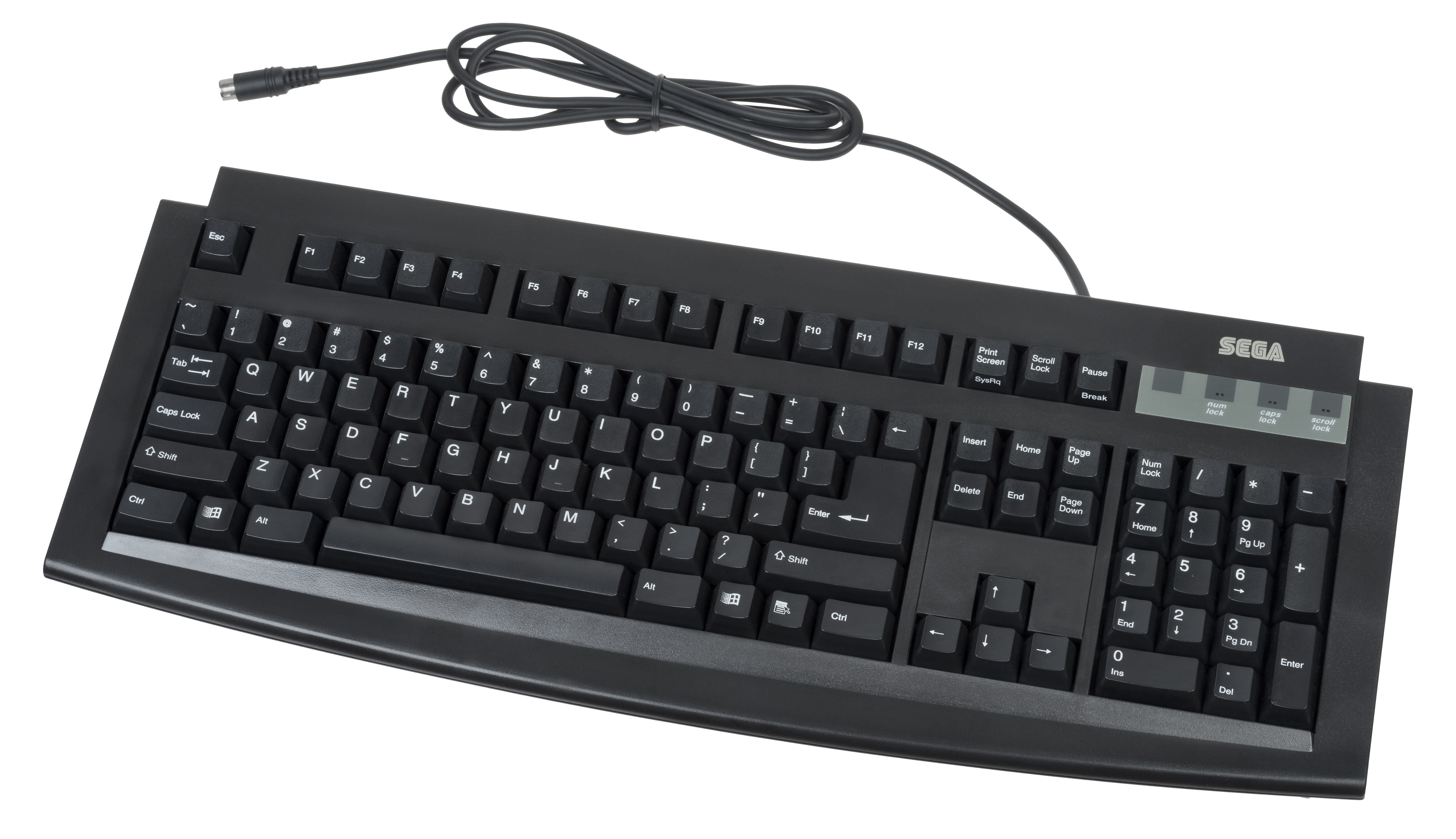 An official Sega keyboard for the Sega Saturn video game console, released for the company's Net Link internet service. The keyboard is a standard PS/2 keyboard with Sega branding and comes with an adapter so it can be plugged into the Saturn's controller port.